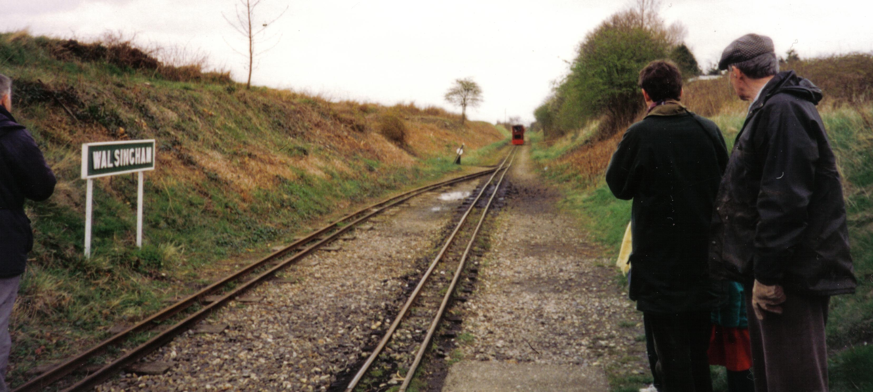 jhjj